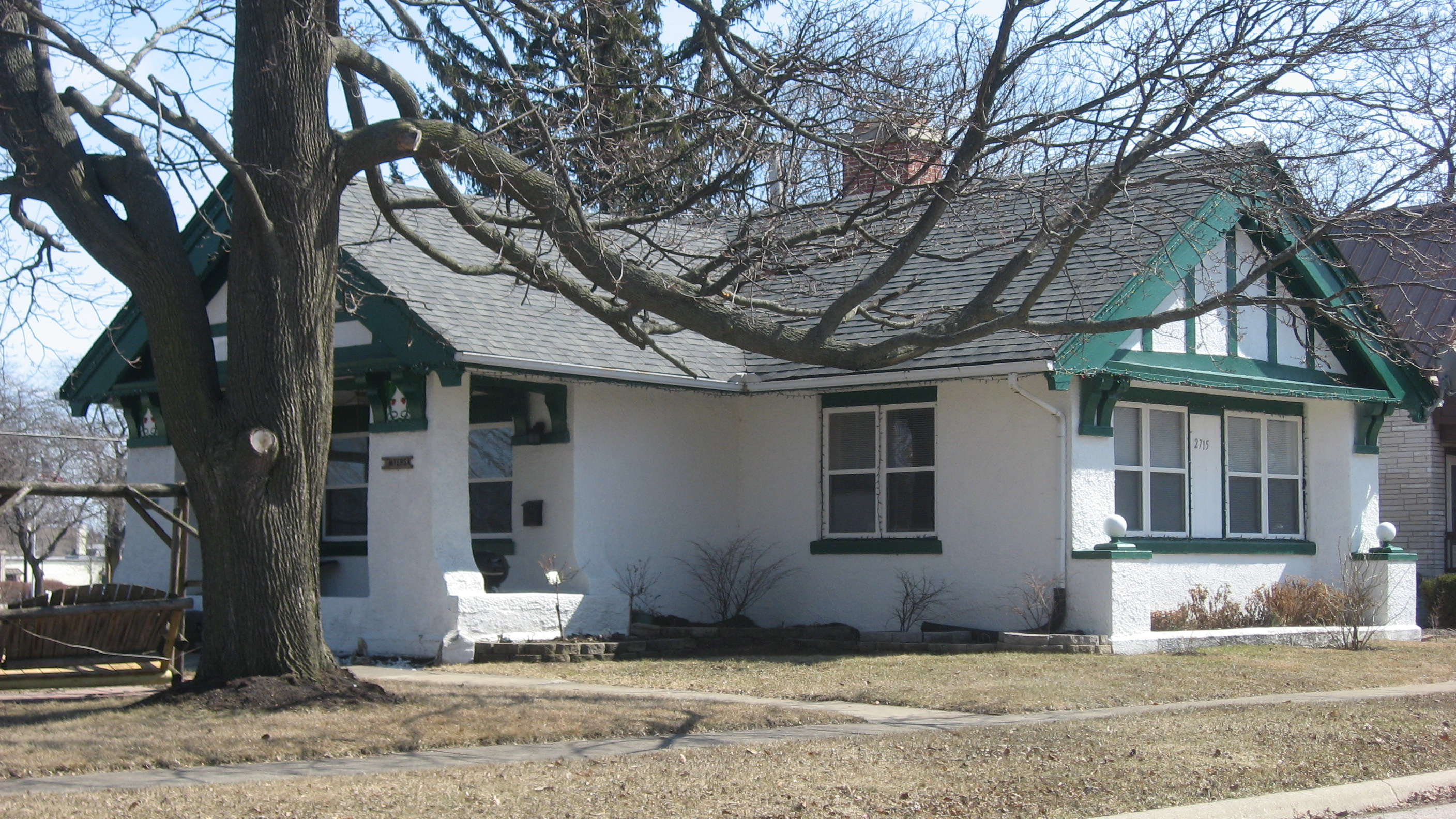 Front and western side of the Zion Chapter House of the American Women's League (now a private residence), located at 1300 Shiloh Boulevard in Zion, Illinois, United States. Built in 1909, it is listed on the National Register of Historic Places.